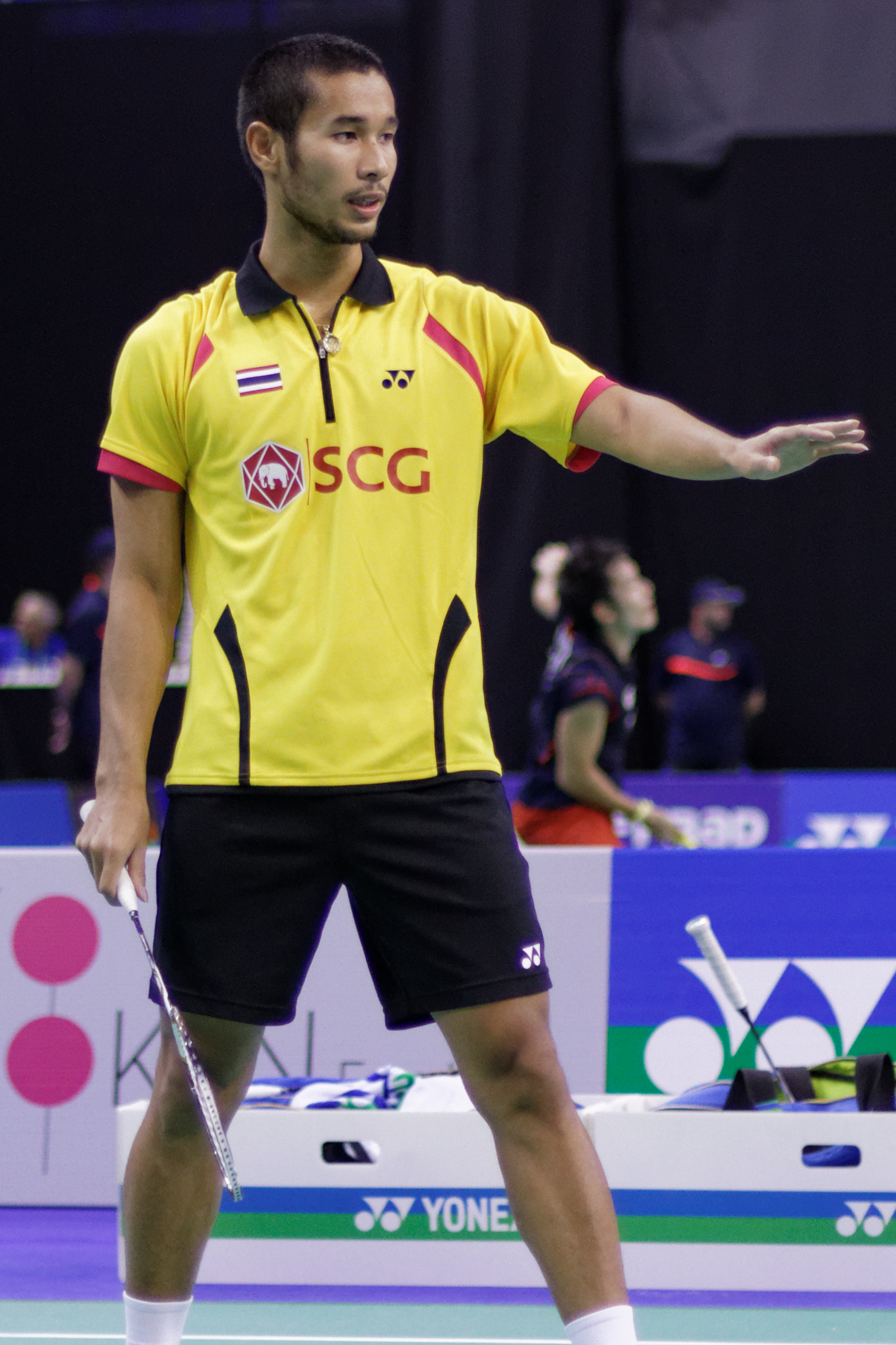 2013 French open. Men's doubles eightfinal. Lee Yong-dae and Yoo Yeon-seong vs Maneepong Jongjit and Nipitphon Puangpuapech.